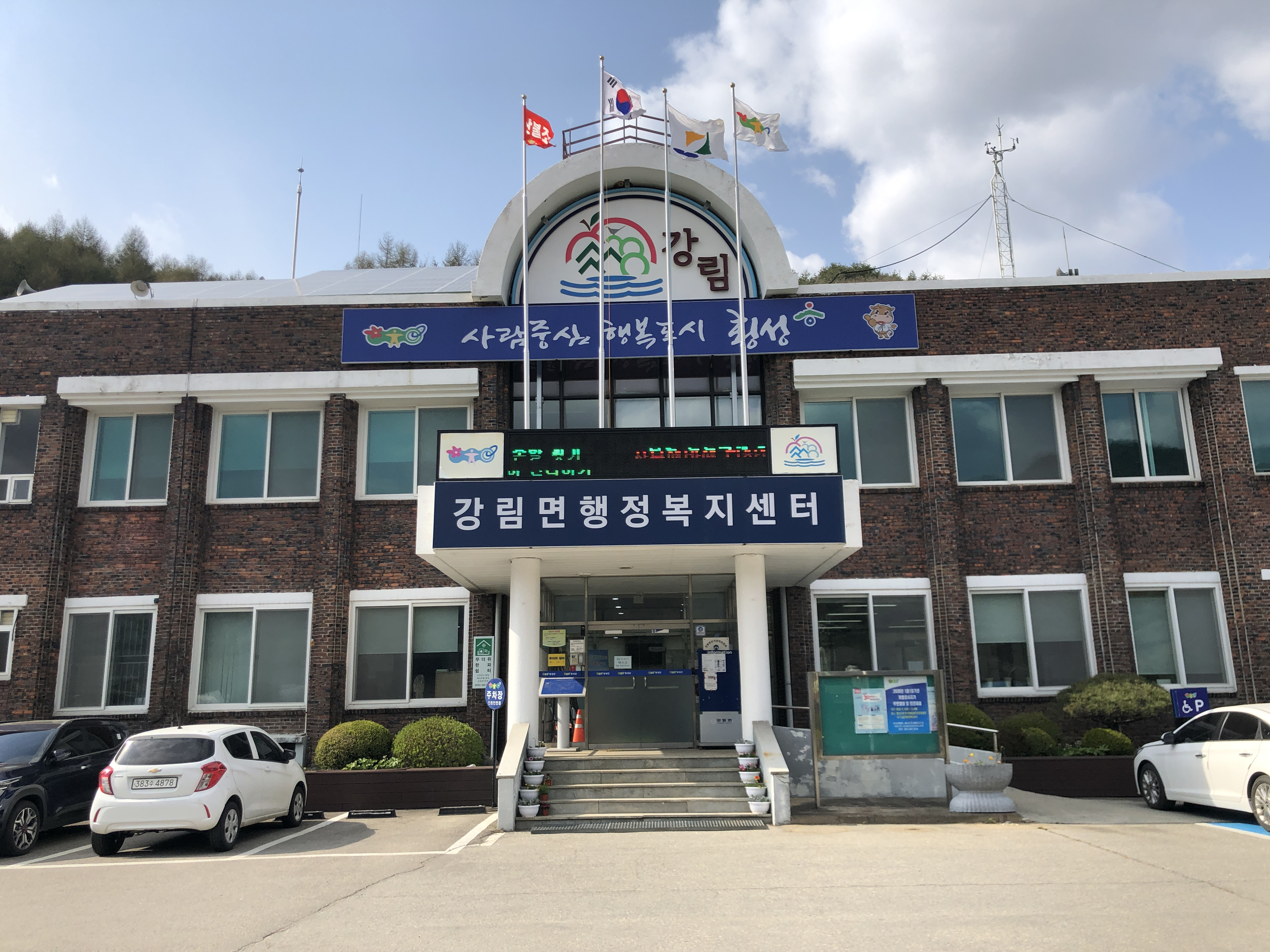 Gangnim-myeon